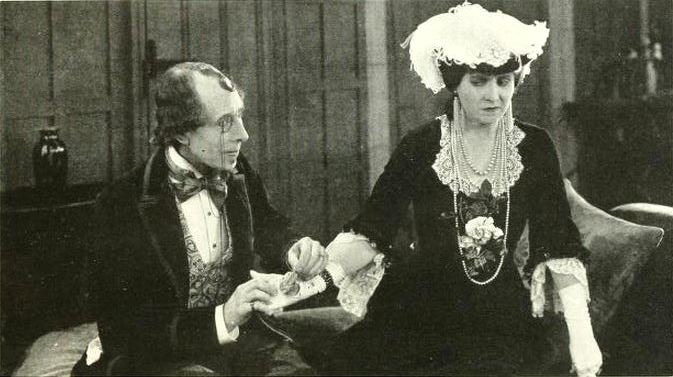 Still from the American film Disraeli (1921) with George Arliss and Margaret Dale, on page 107 of Peter Milne, Motion Picture Directing; The Facts and Theories of the Newest Art (1922).